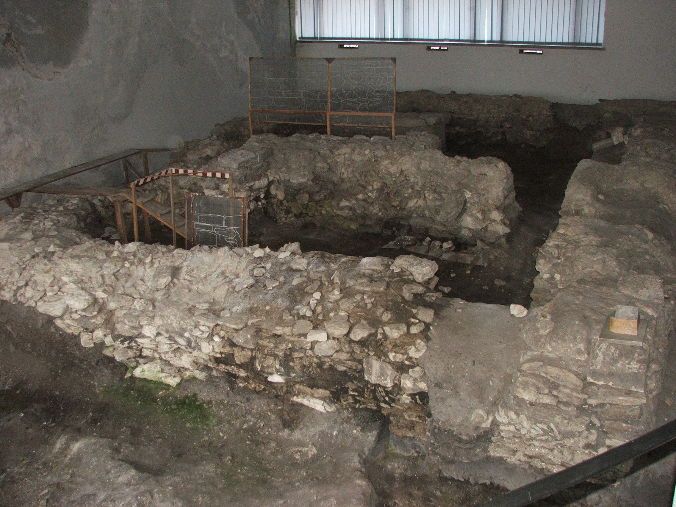 The remains of the st. Nicolaus church, dated back probably to Xth century